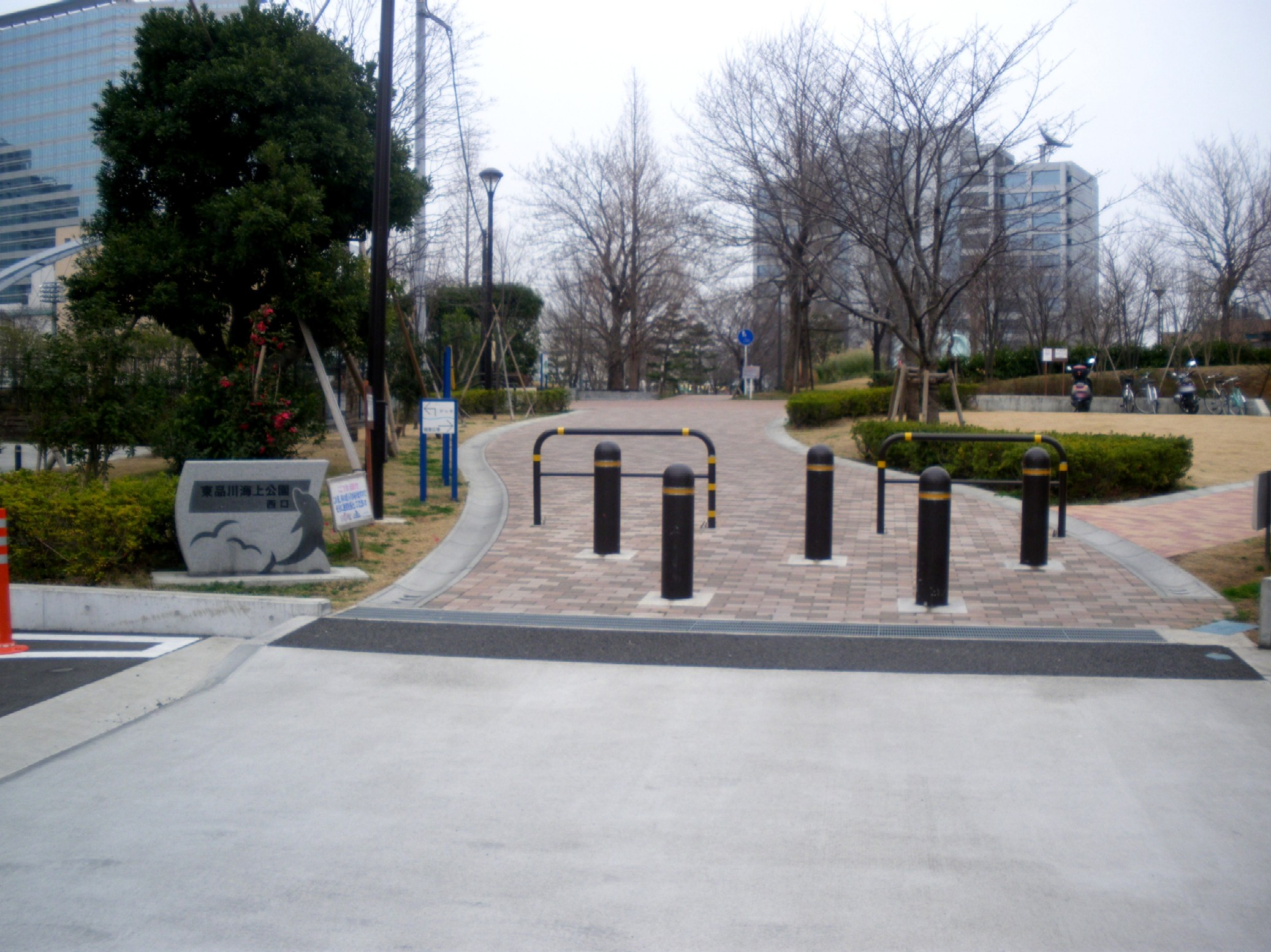 Higashishinagawa Kaijo Park(Shinagawa,Tokyo)